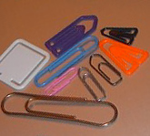 Assorted paperclips